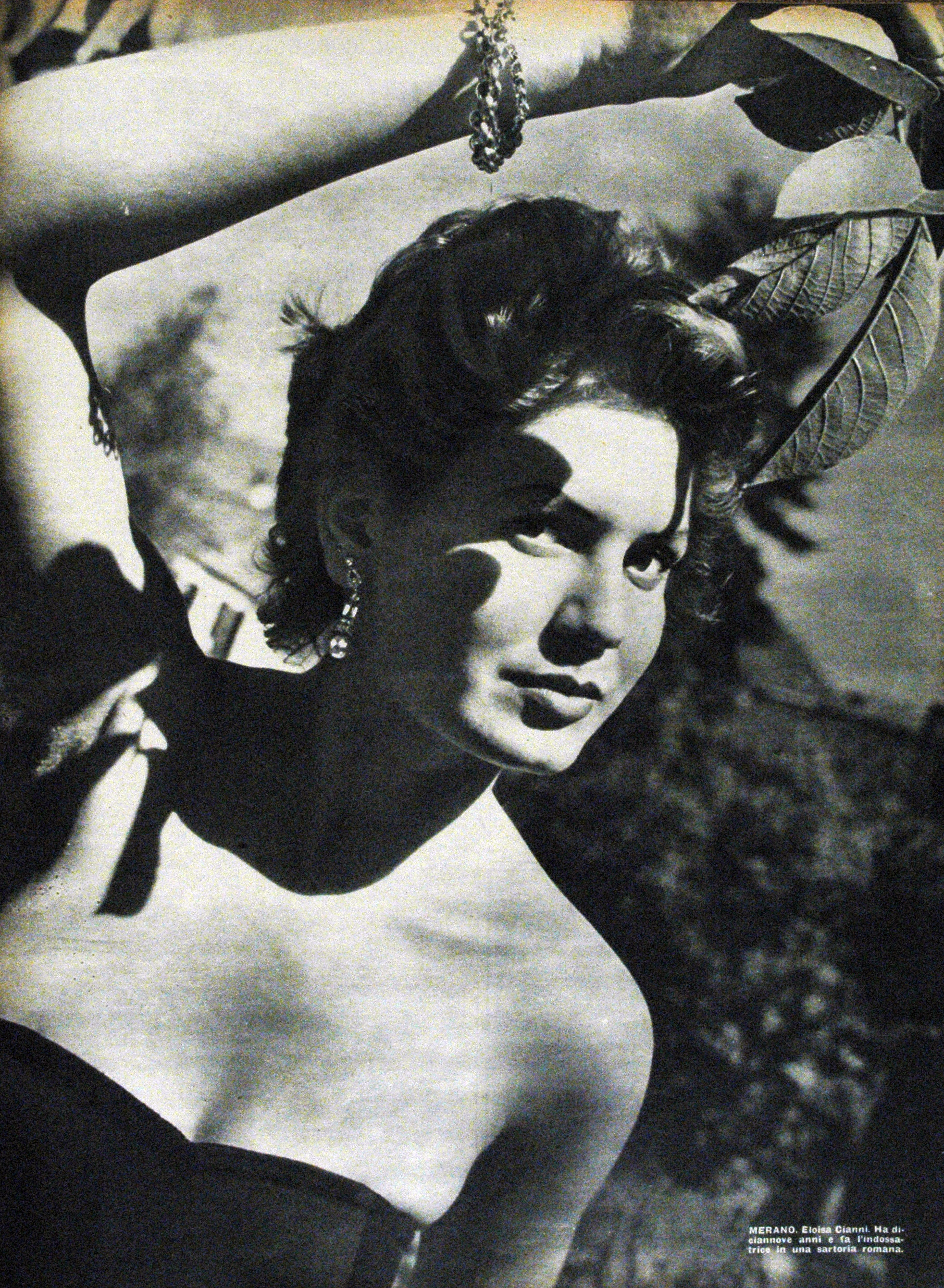 photo from the Italian magazine Oggi (1951)